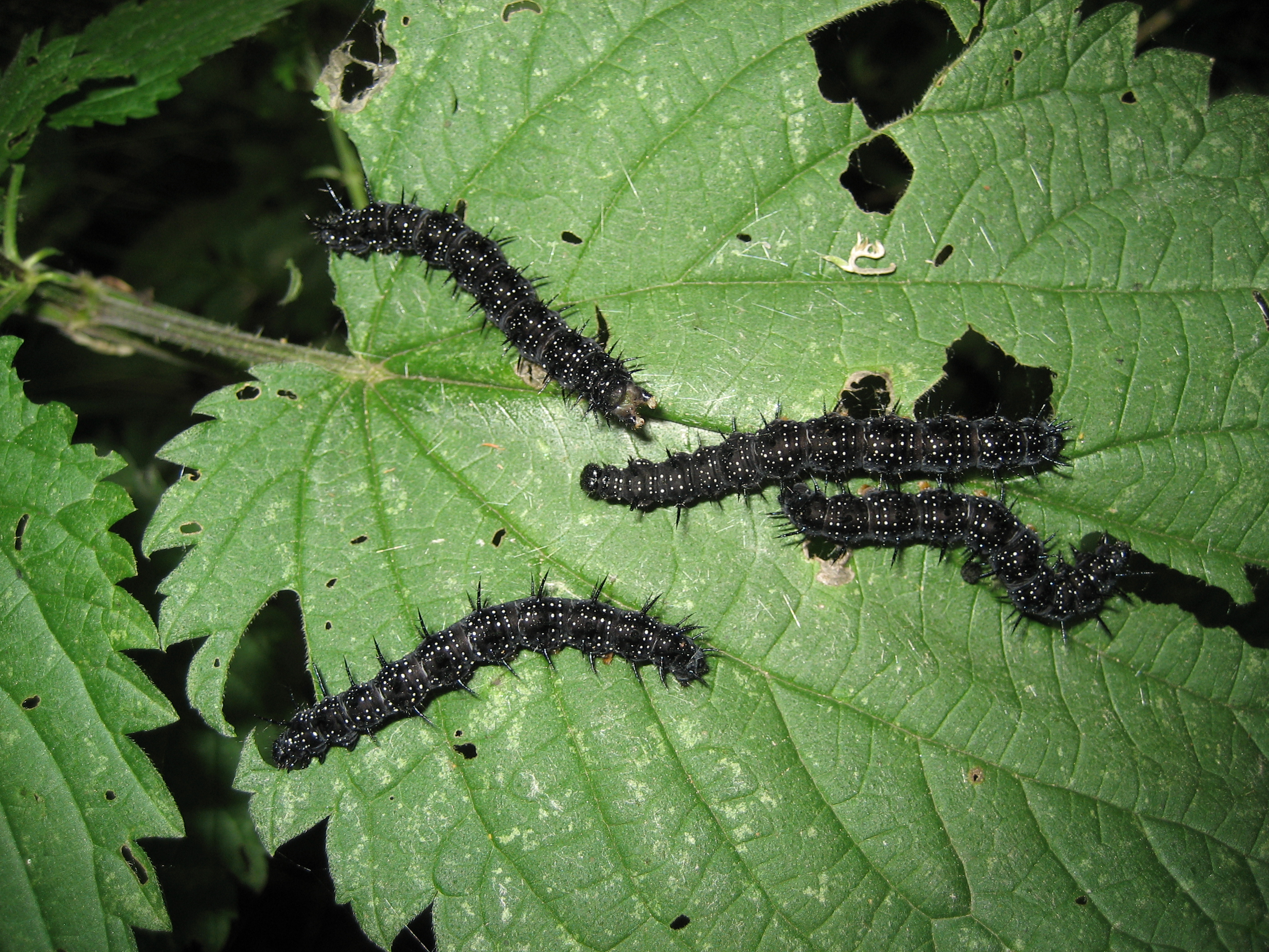 Tagpfauenauge, Raupe (European Peacock, caterpillar); Inachis io